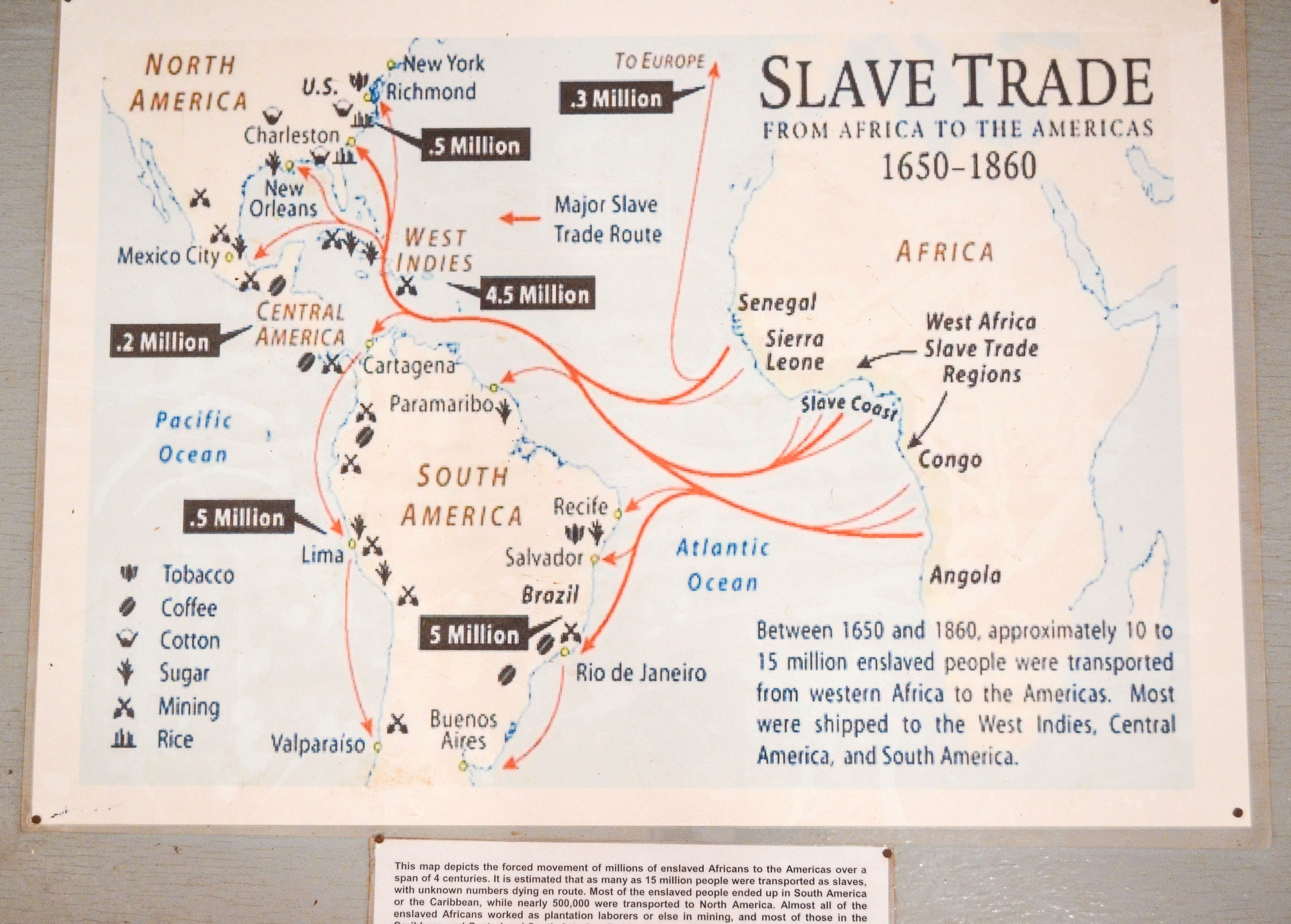 Slave trade from Africa to the Americas.